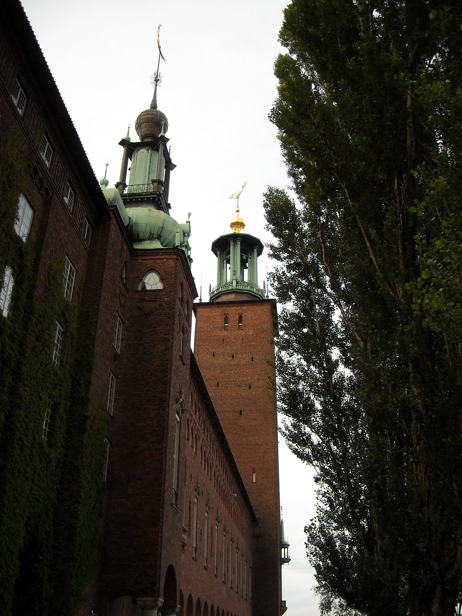 The tower and Southern facade of Stockholm City Hall in Stockholm, Sweden.